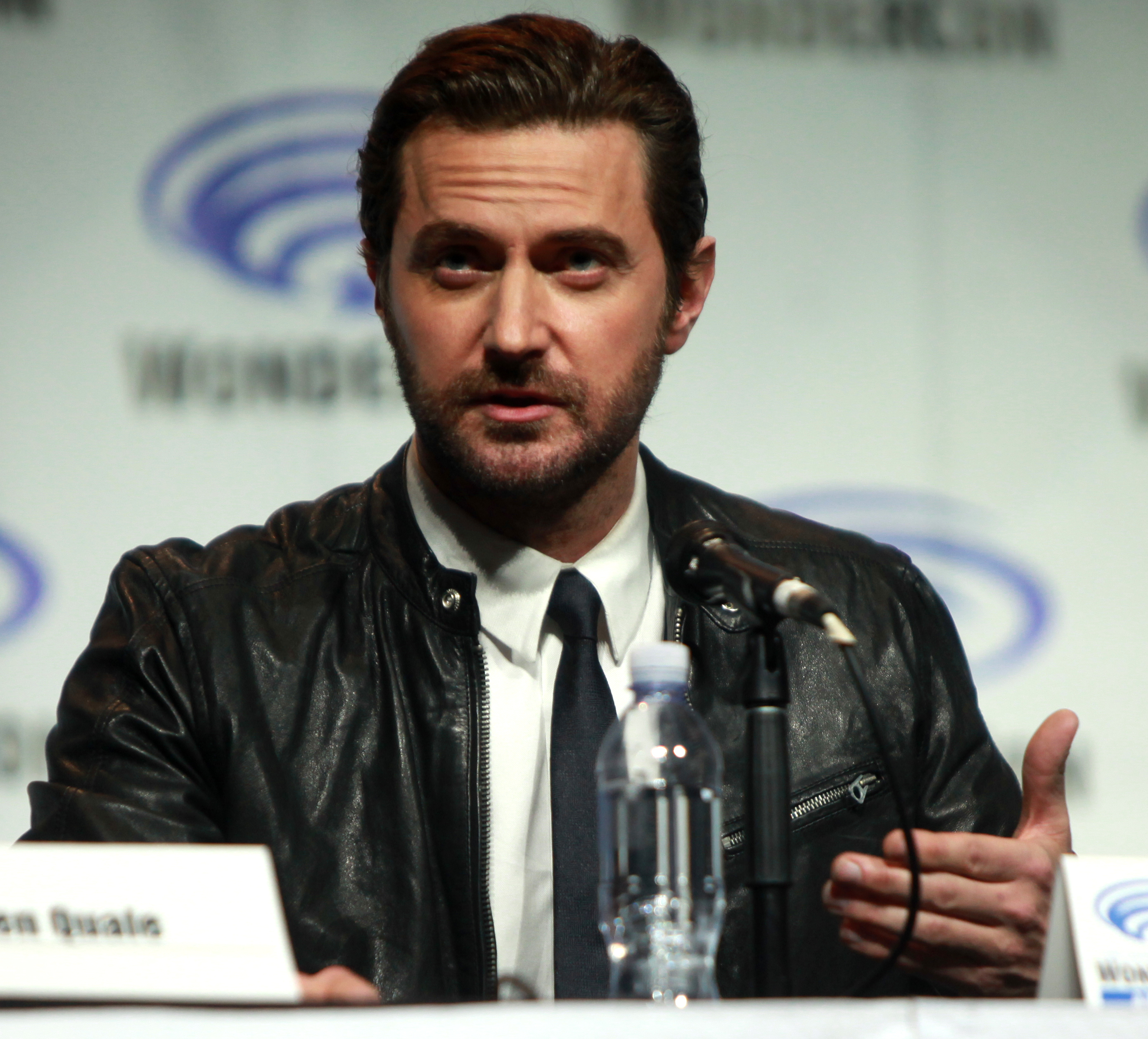 Richard Armitage speaking at the 2014 WonderCon, for "Into the Storm" film, at the Anaheim Convention Center in Anaheim, California.